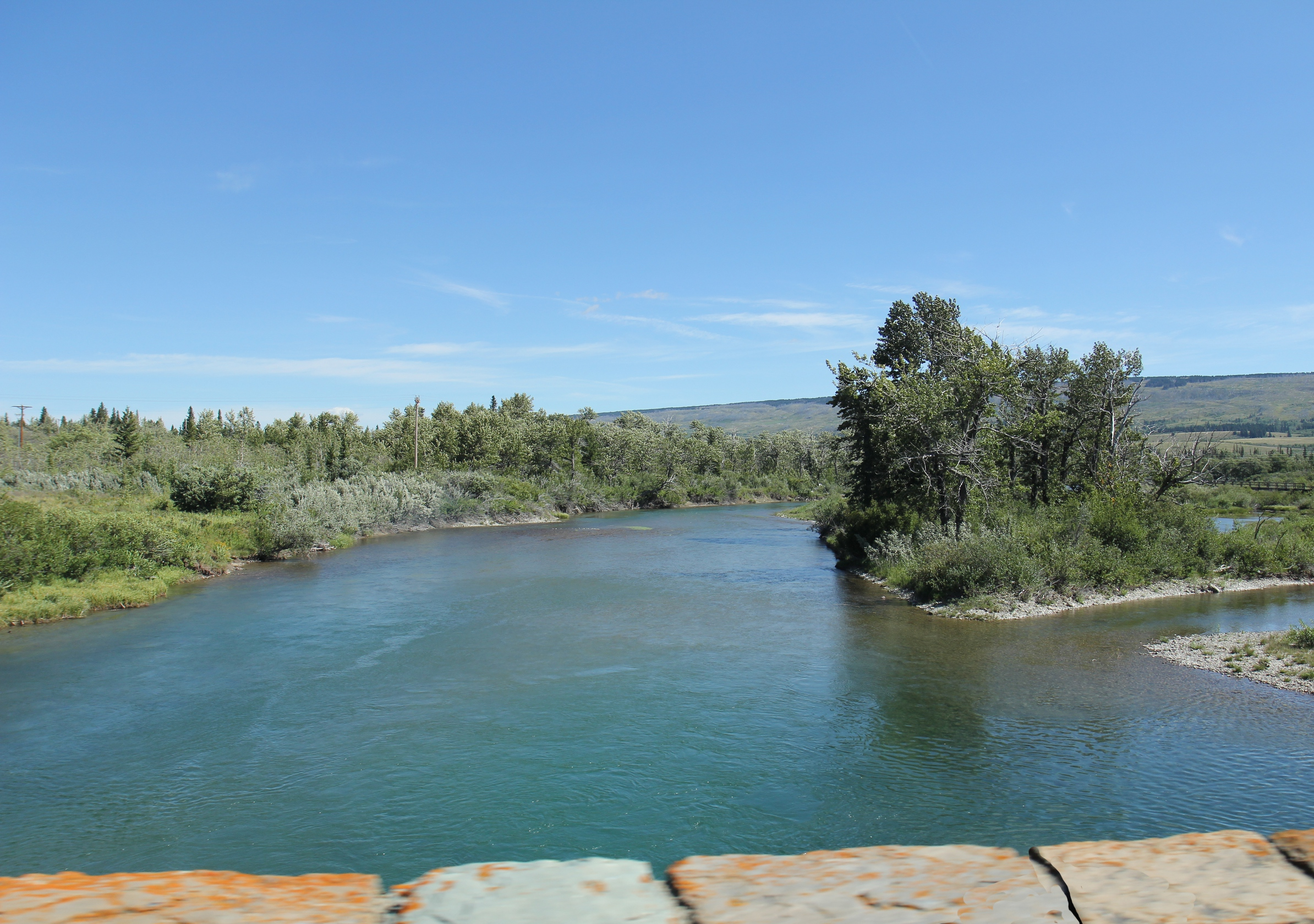 The St. Mary River between St. Mary lakes at St. Mary, Montana just inside Glacier National Park.